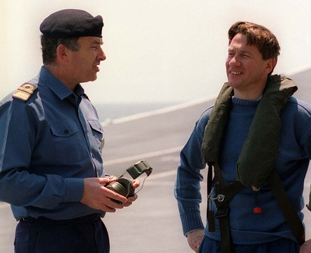 From left to right aboard the H.M.S. ILLUSTRIOUS off the coast of North Carolina, Admiral Sir Peter Abbott, KCB, Commander in CHIEF Fleet, talks with The Right Honorable Michael Portillo MP, United Kingdom Secretary of State For Defense, and The Honorable William J. Perry, United States Secretary of Defense